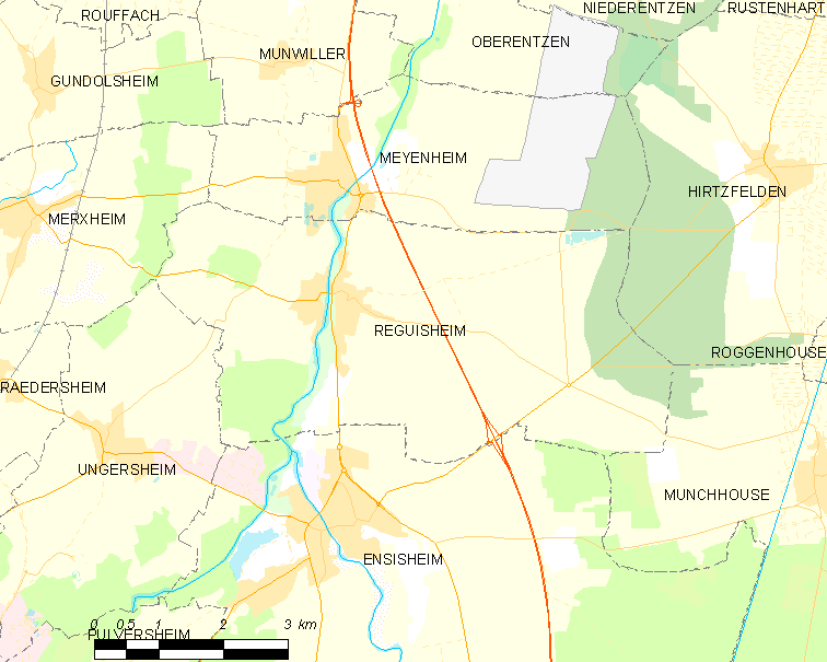 Map of French municipality